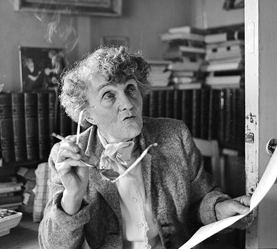 Moa Martinson in her home in Sorunda 1957.